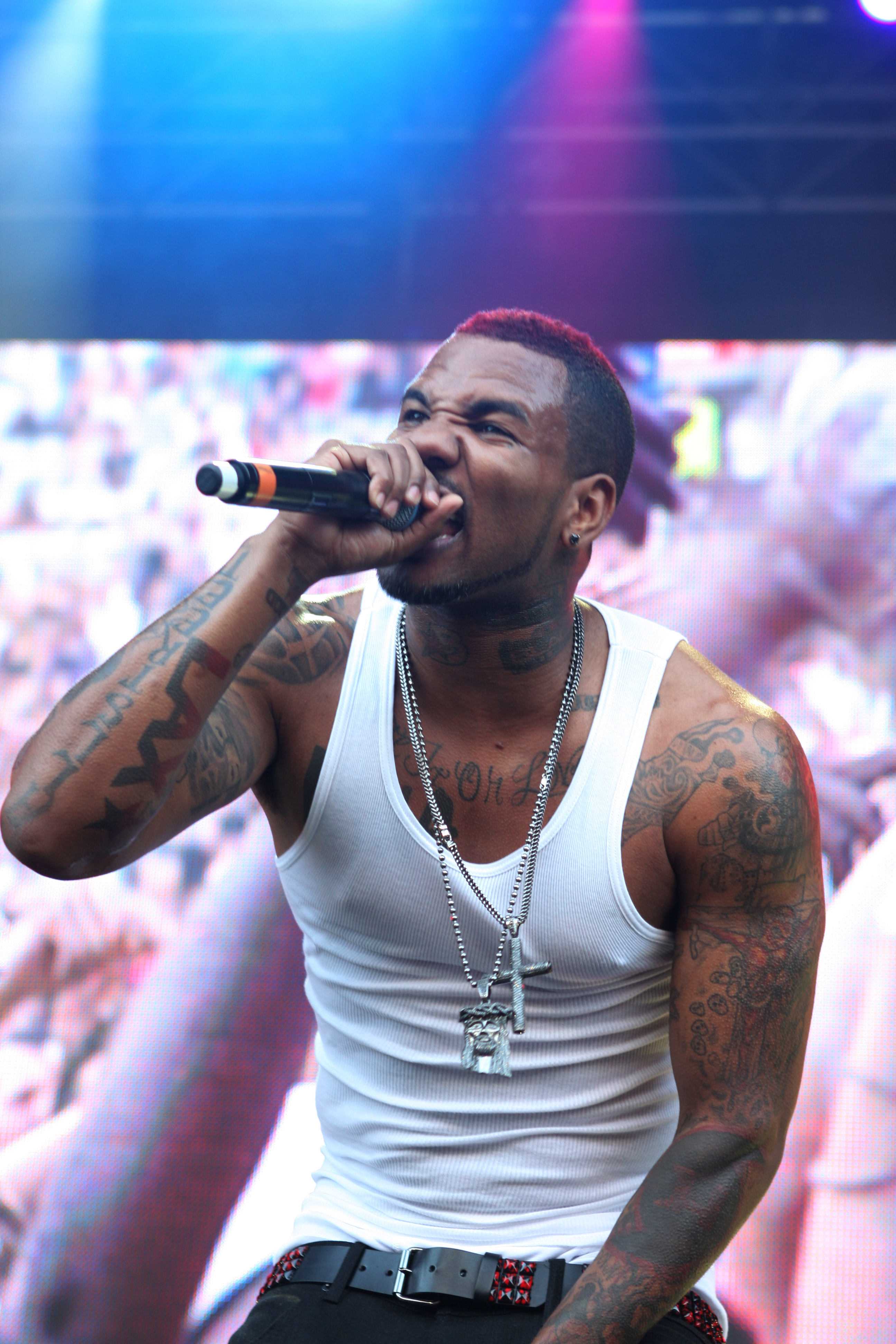 The Game Supafest